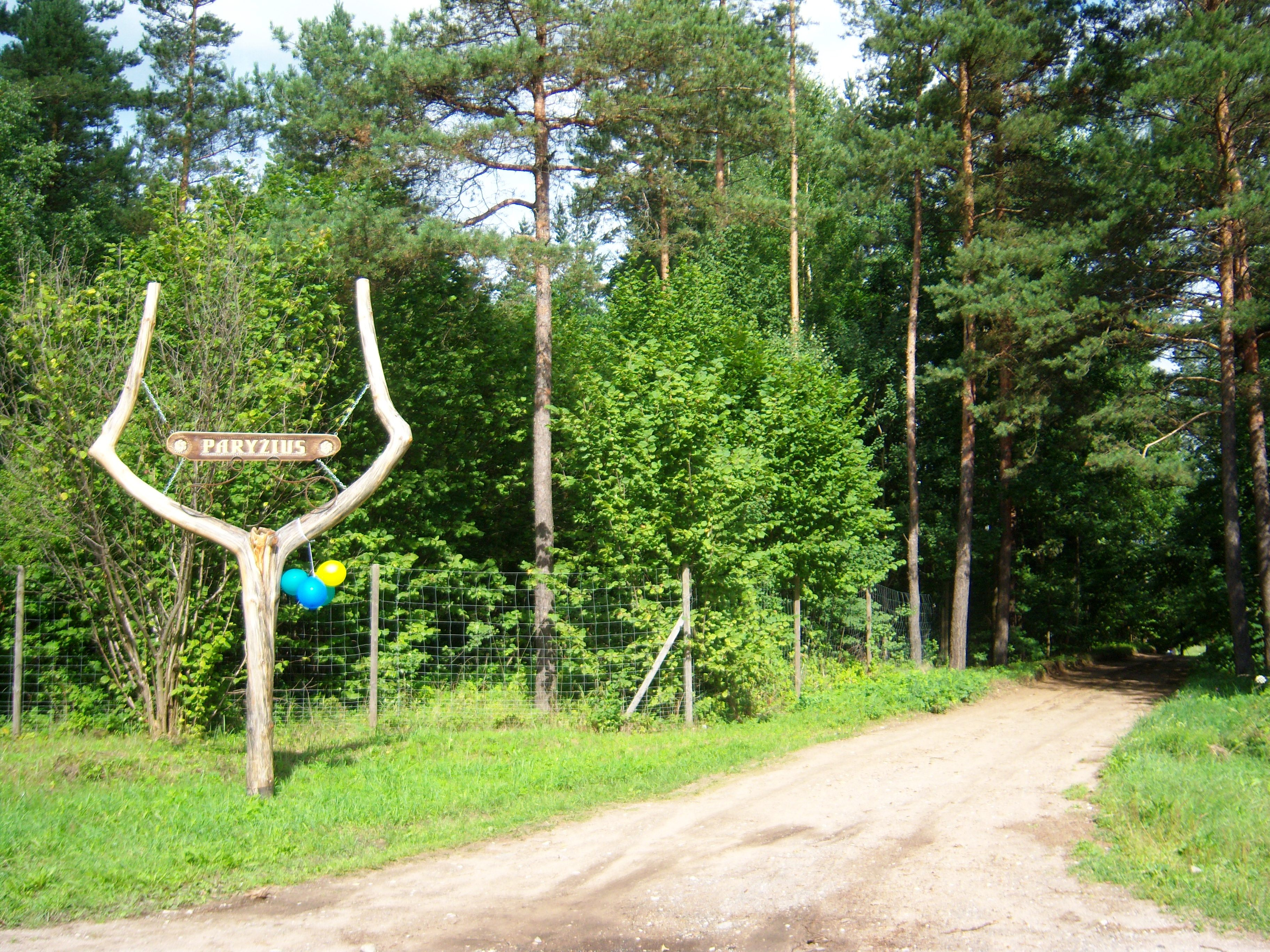 Paryžius, Jonava District, Lithuania